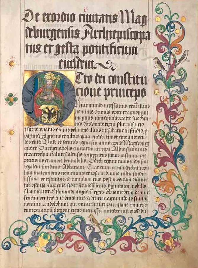 Chronica archiepiscoporum Magdeburgensium. Hs. Kynžvart 91, Bl. 1r